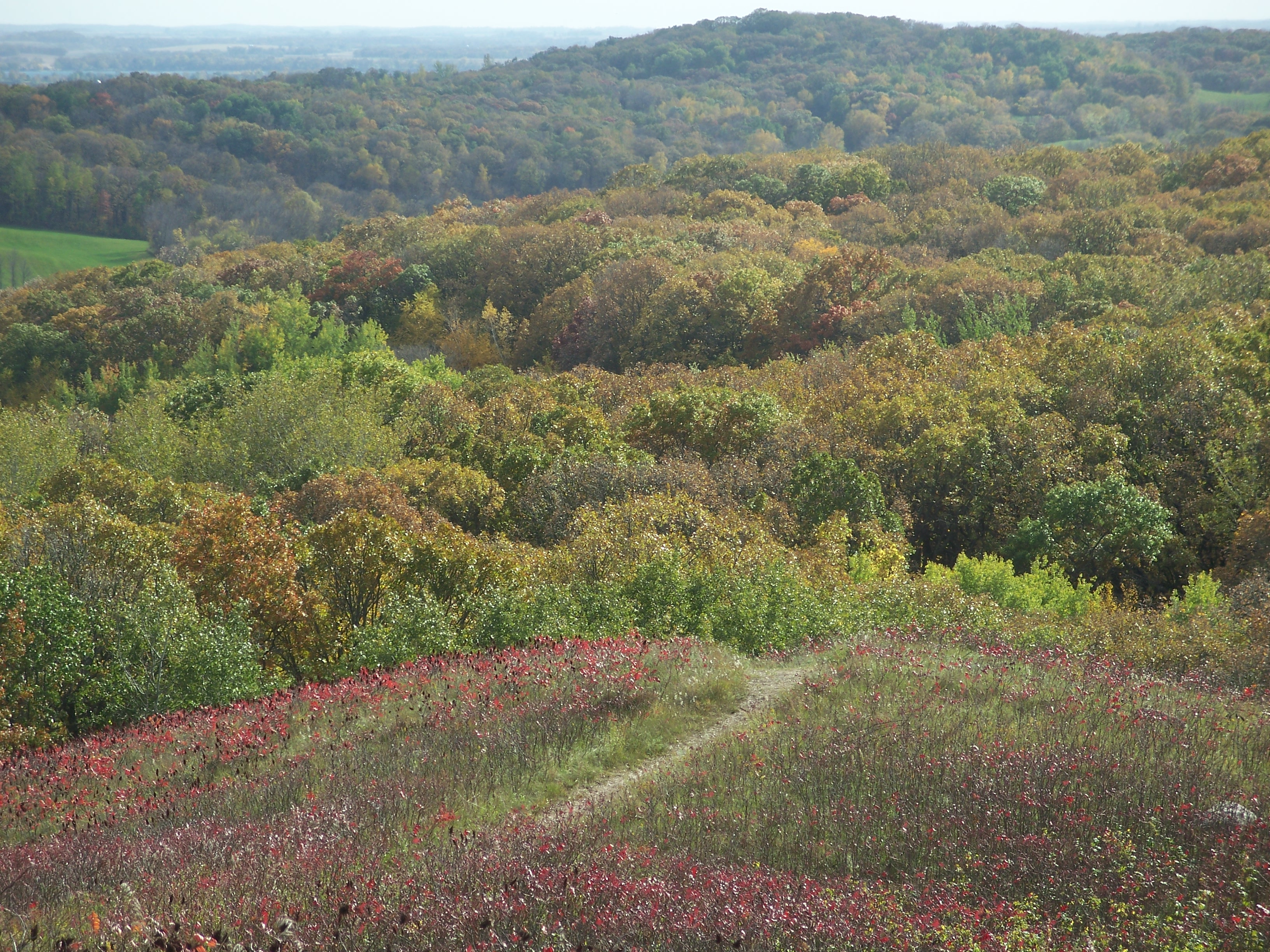 Taken October 3, 2007 from the top of Inspiration Peak in Otter Tail County, Minnesota